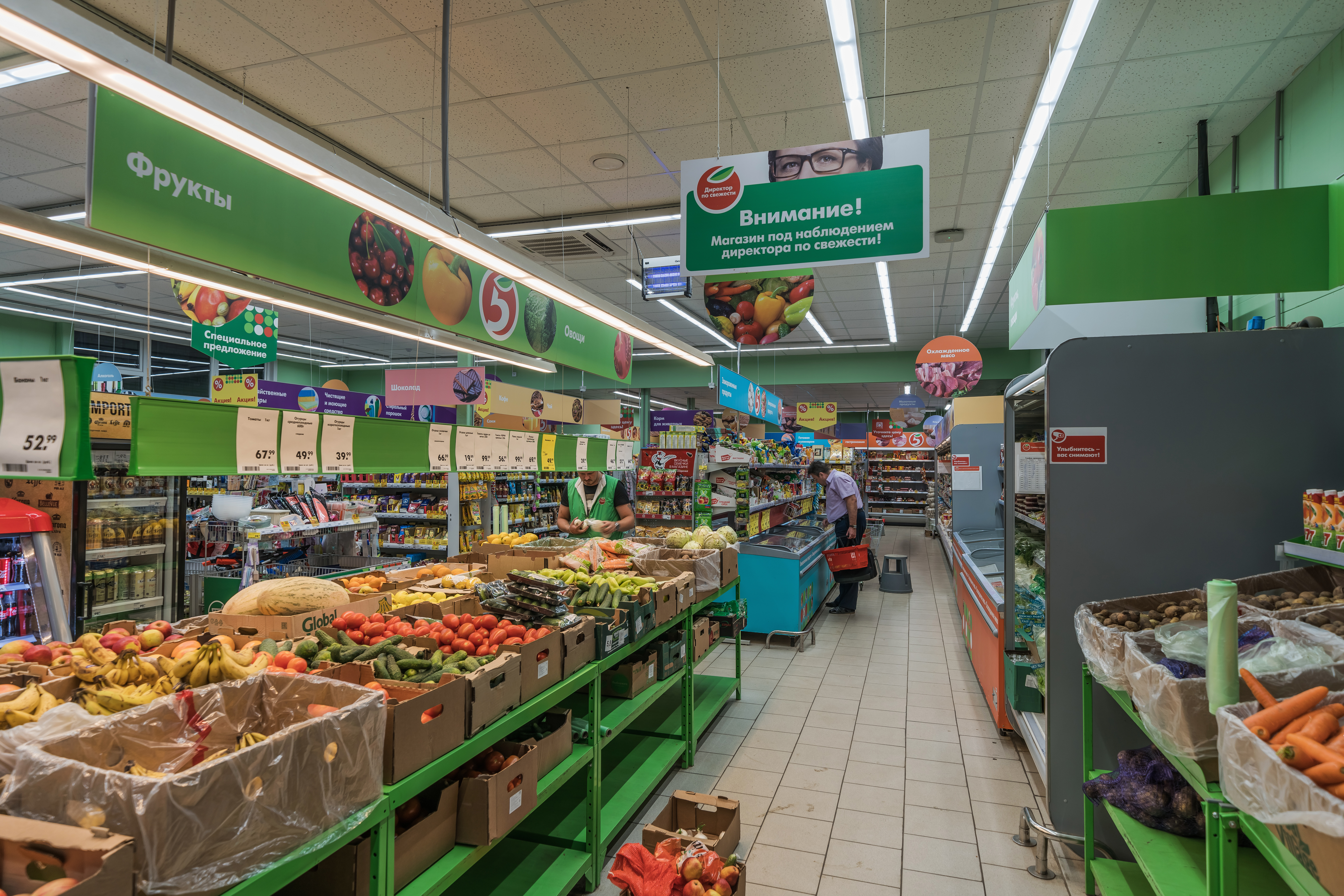 Building at Truda Street 33 (Pyaterochka supermarket) in Valdai, Novgorod Oblast, Russia